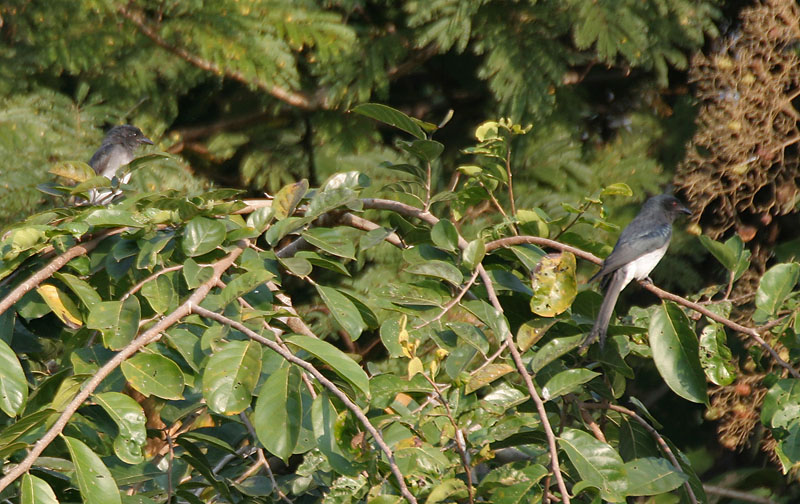 White-bellied Drongo Dicrurus caerulescens in Kawal Wildlife Sanctuary, Andhra Pradesh, India.